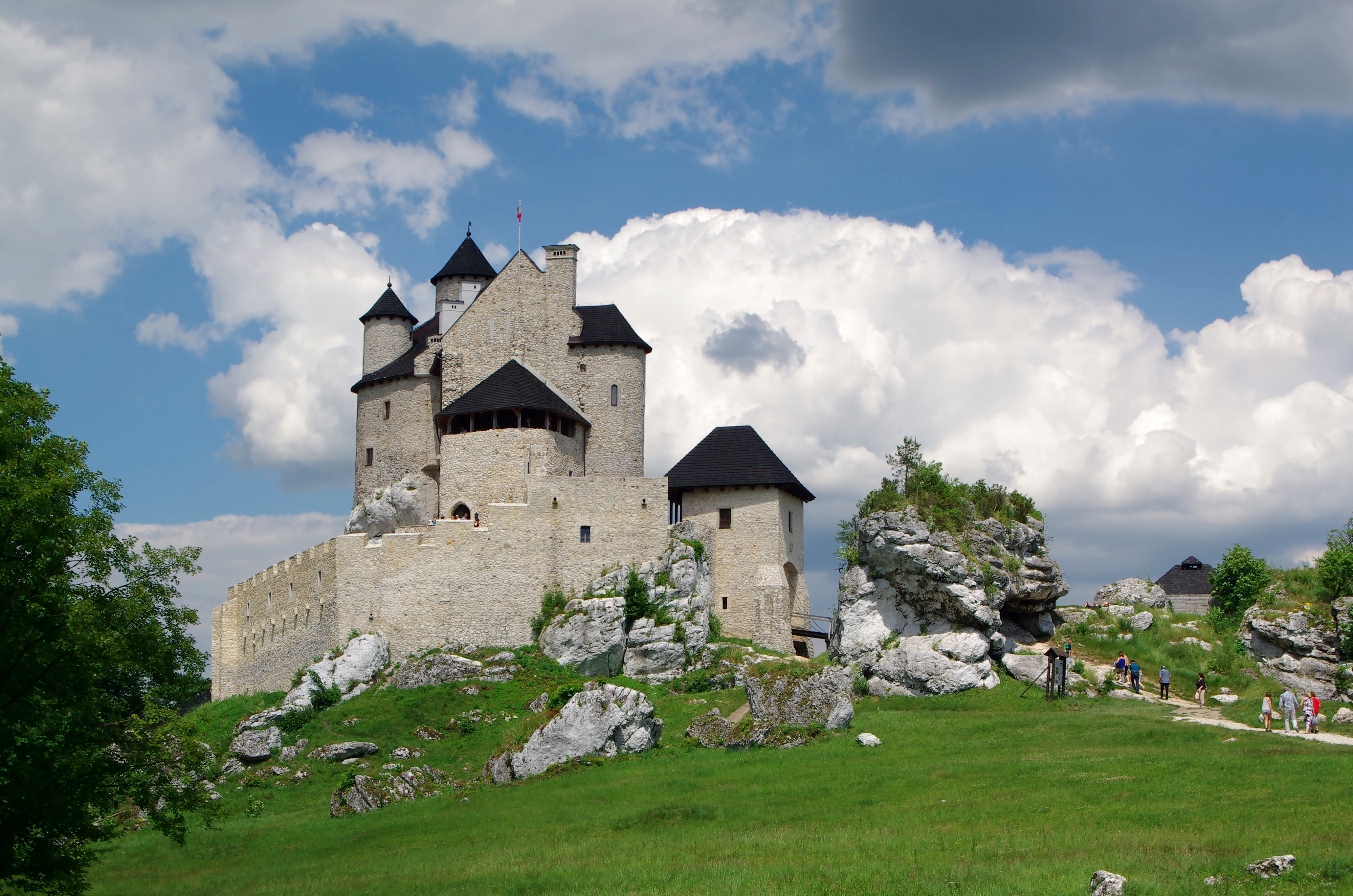 Bobolice Castle